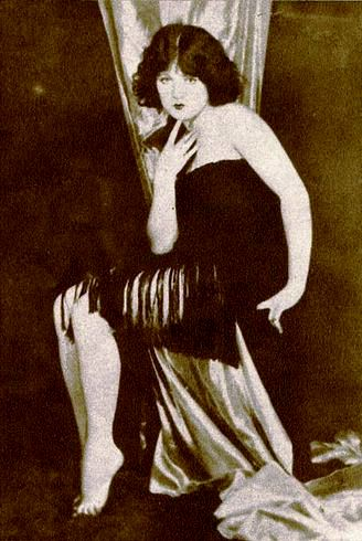 Still for the American film The Dangerous Little Demon (1922) with Marie Prevost, on page 9 of the March 30, 1930 Silverscreen magazine.